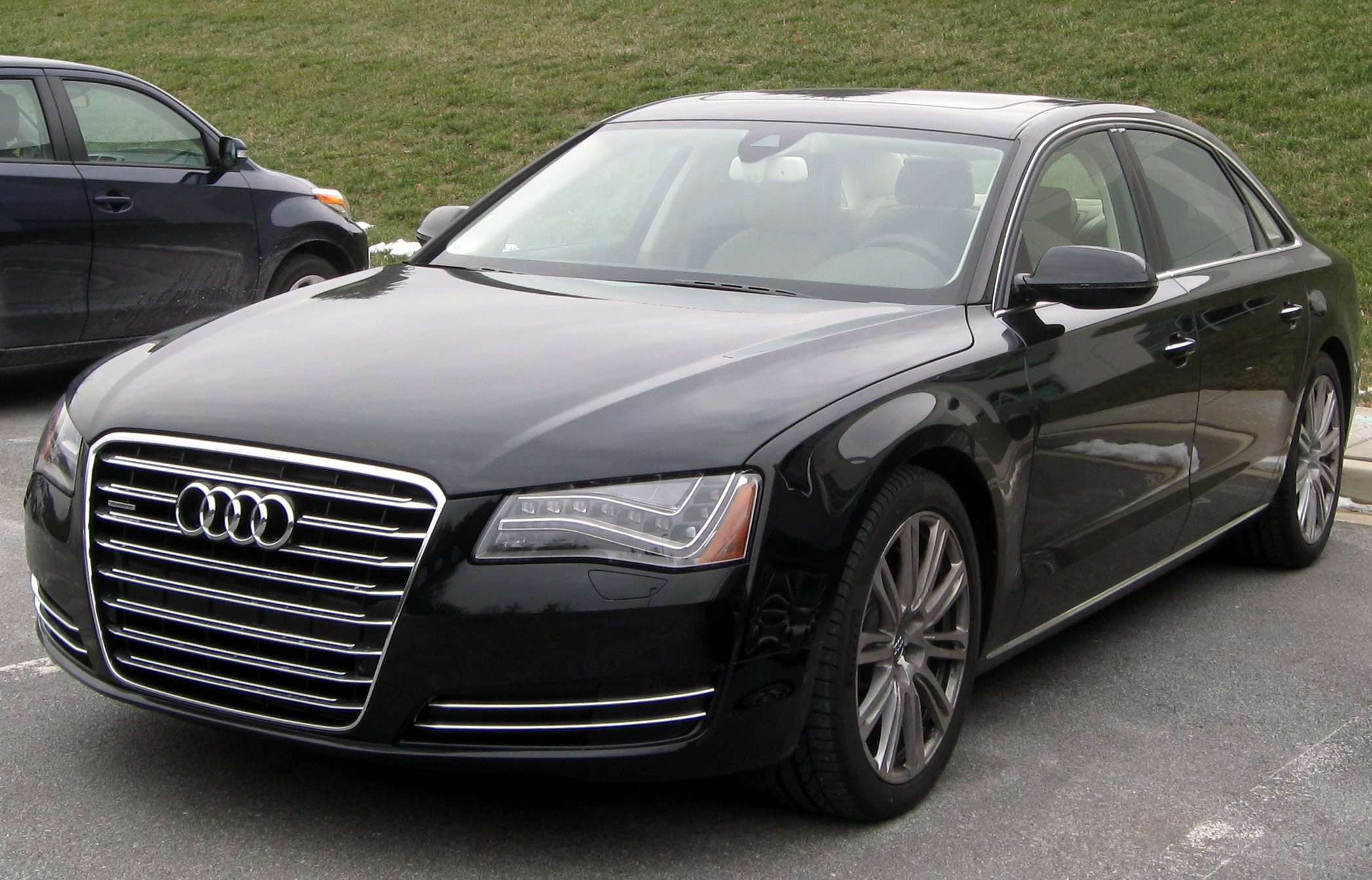 2011 Audi A8 photographed in Upper Marlboro, Maryland, USA.